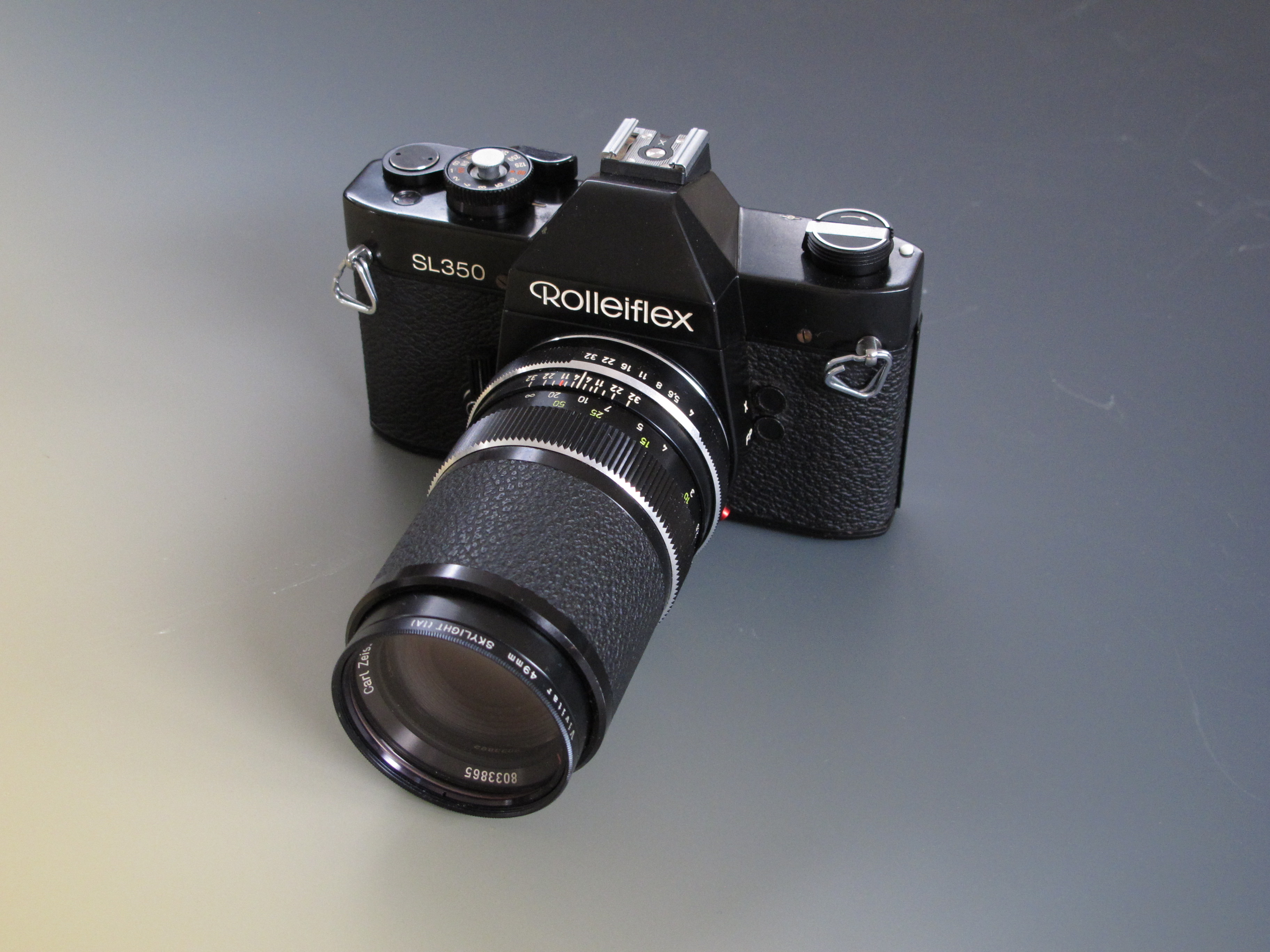 Rolleiflex SL350 with Tele 4/135